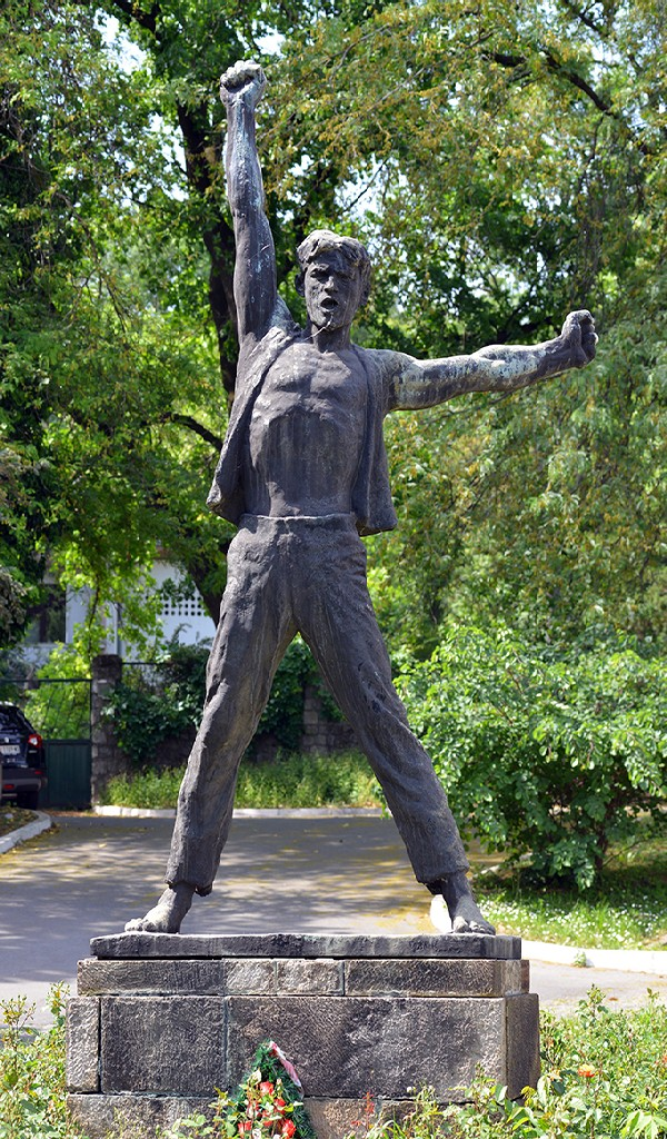 Sculpture of Poziv na ustanak by Vojin Bakić